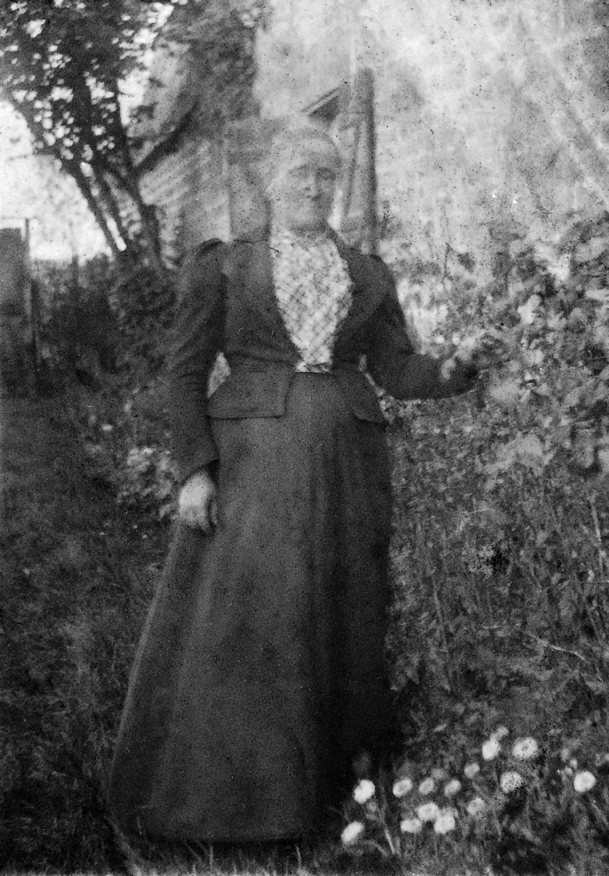 Mme Vitalie Rimbaud (1825-1907), mother of the poet Arthur Rimbaud, at the Roche farm. – Albumen print, circa 1890